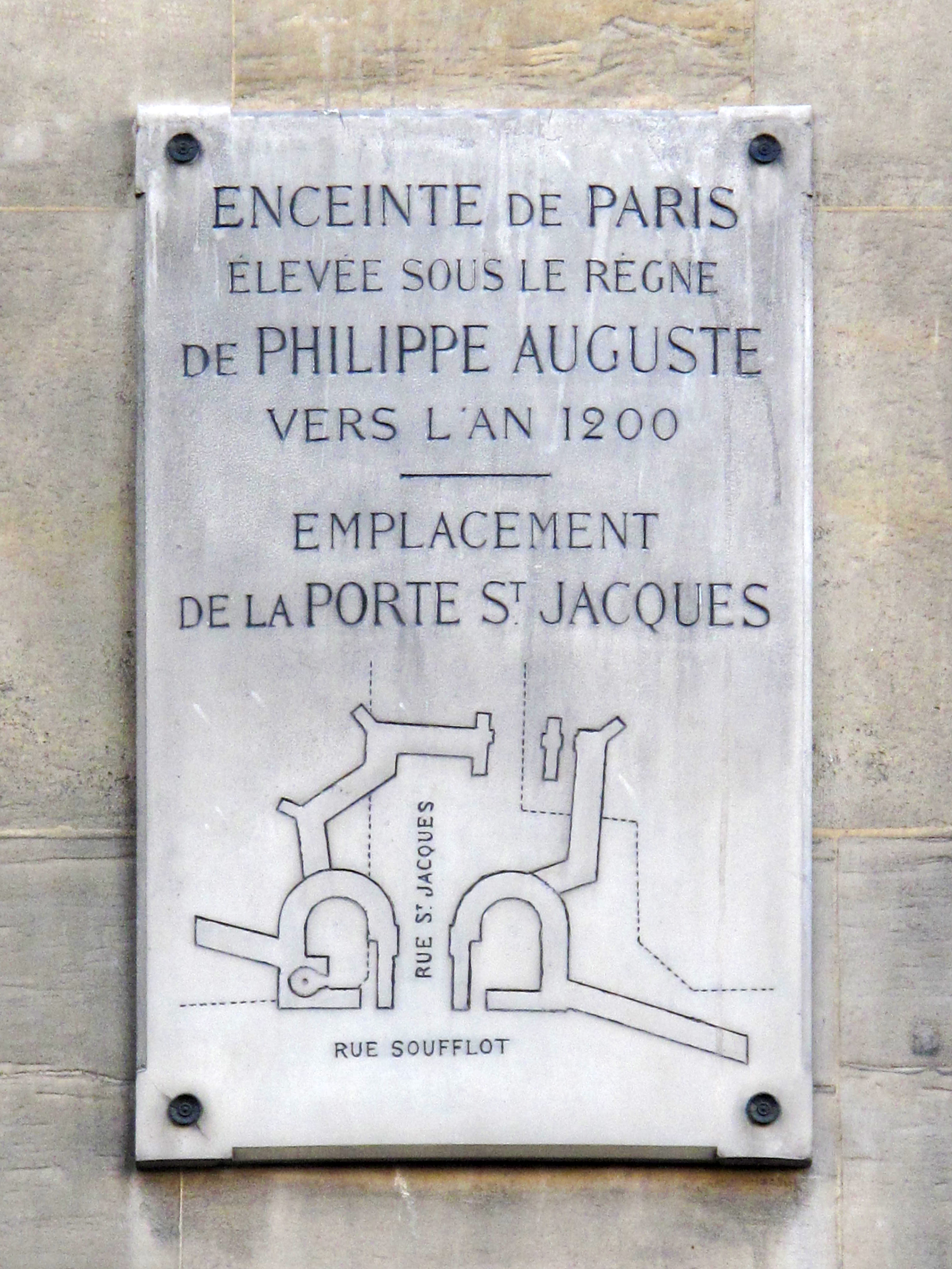 Plaque where the porte Saint-Jacques stood in Philippe Auguste's wall. This place is now where rue Saint-Jacques and rue Soufflot intersect, in Paris 5th arrondissement.